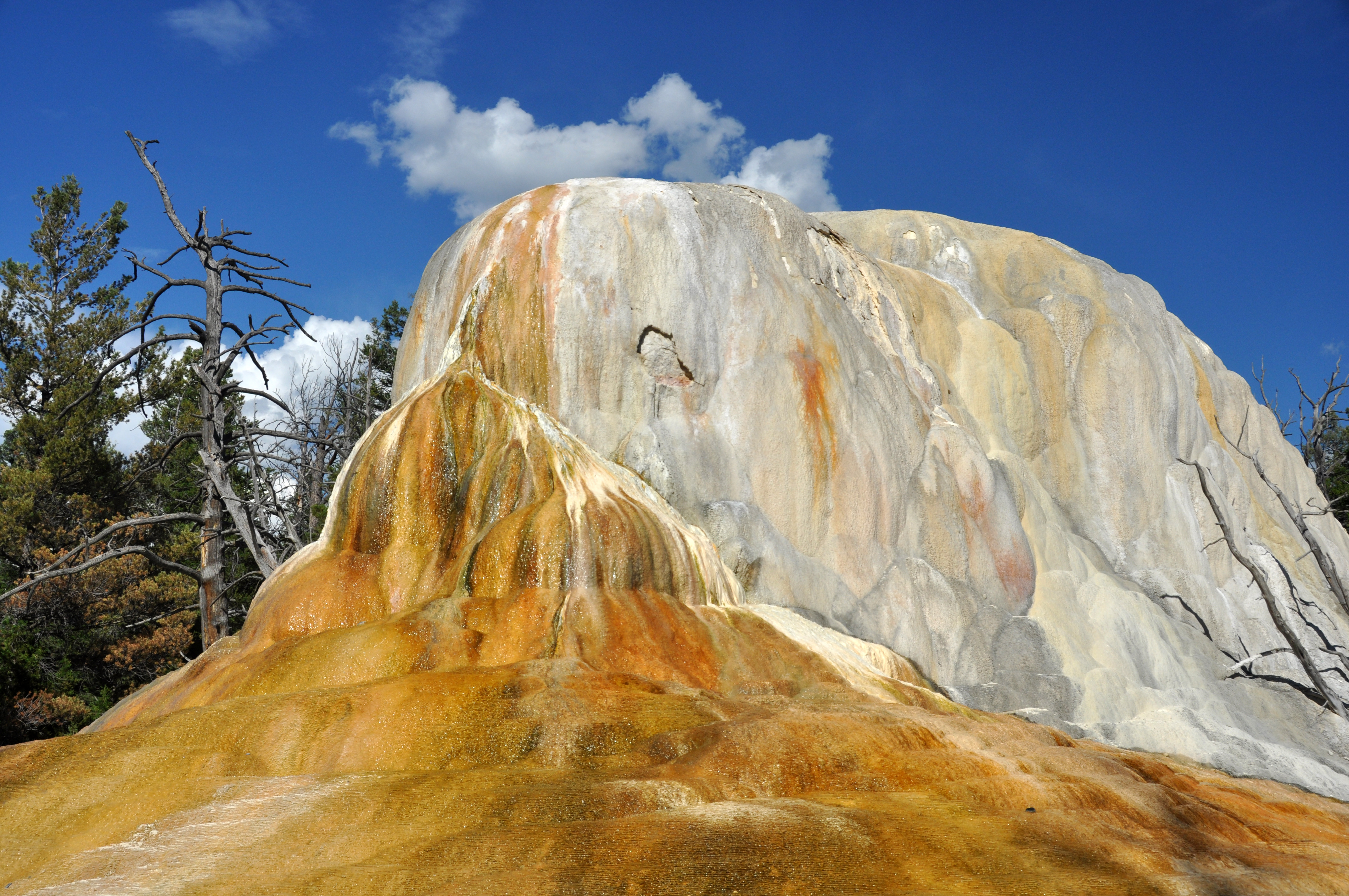 Orange Mound Spring (10 July 2014) 2